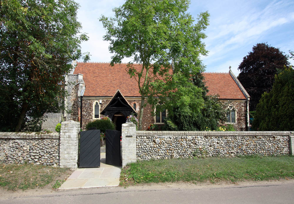 Frating Church (now a private house)